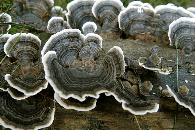 Trametes versicolor from Commanster, Belgium. The determination of the species shown in this picture has been verified.